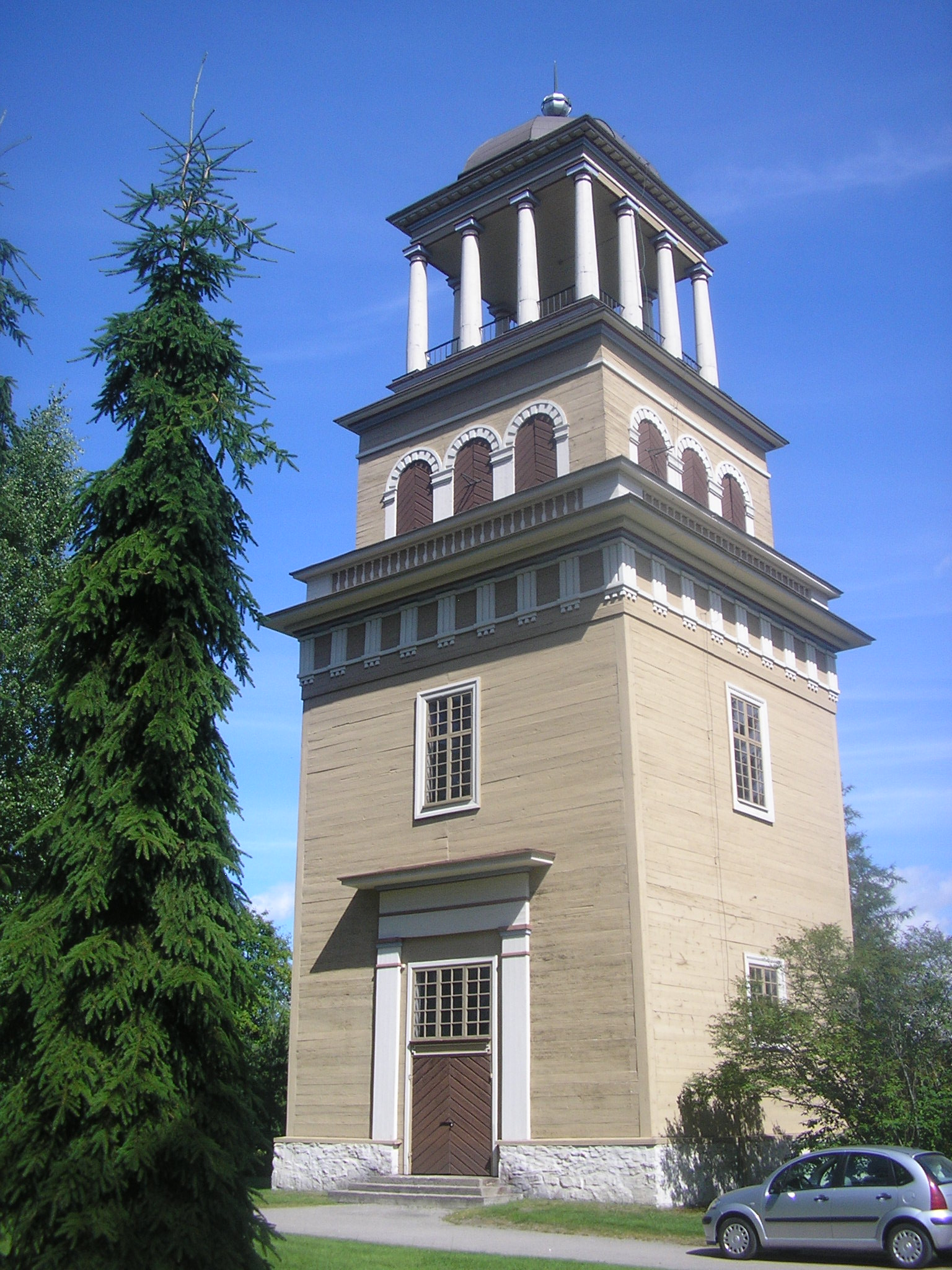 Belfry of Lieksa Church in Lieksa, Finland